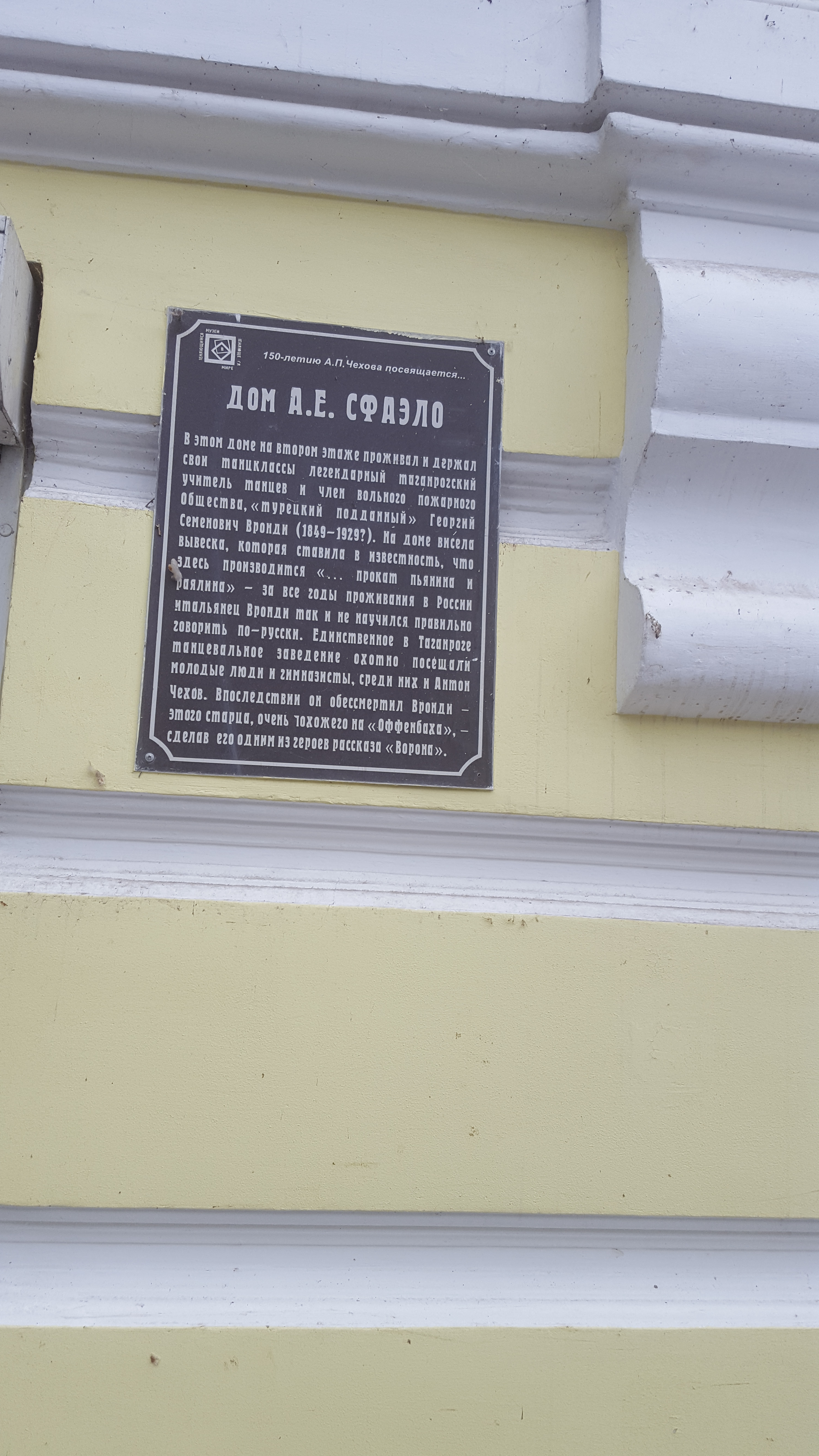 A memorial plaque dedicated to Georgy Semyonovich Vrondi (character of Anton Chekhov's short story "Crow") at the wall of the A. E. Sfaelo house.